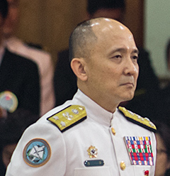 Vice Admiral Tang Hua